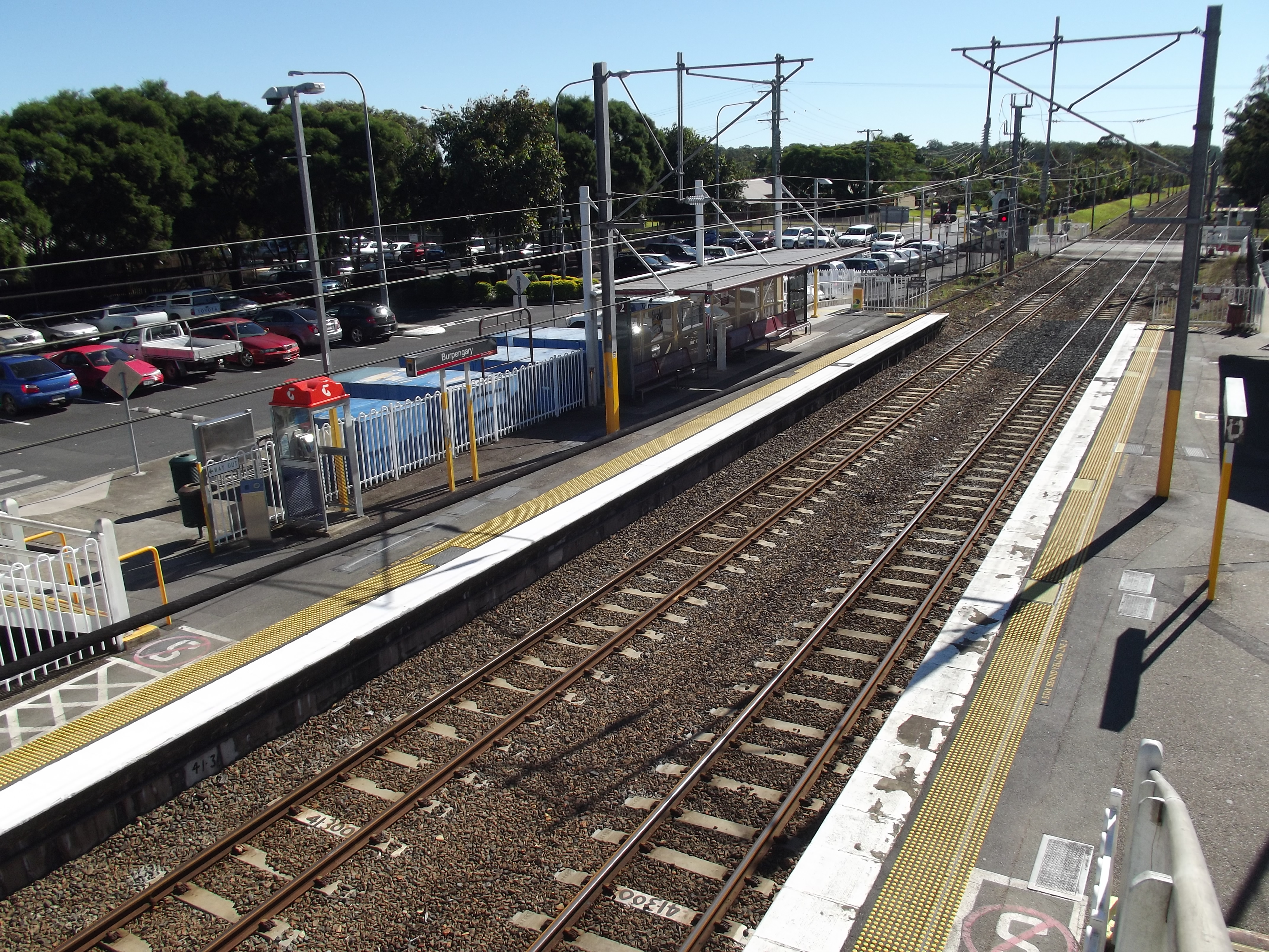 A photo of the Burpengary railway station, operated by TransLink, located in Brisbane, Australia.